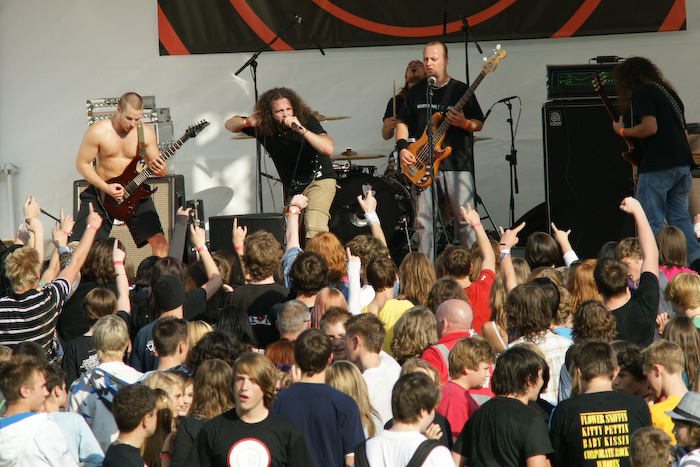 Vallenbrosa performs at the 2008 Butserfest.